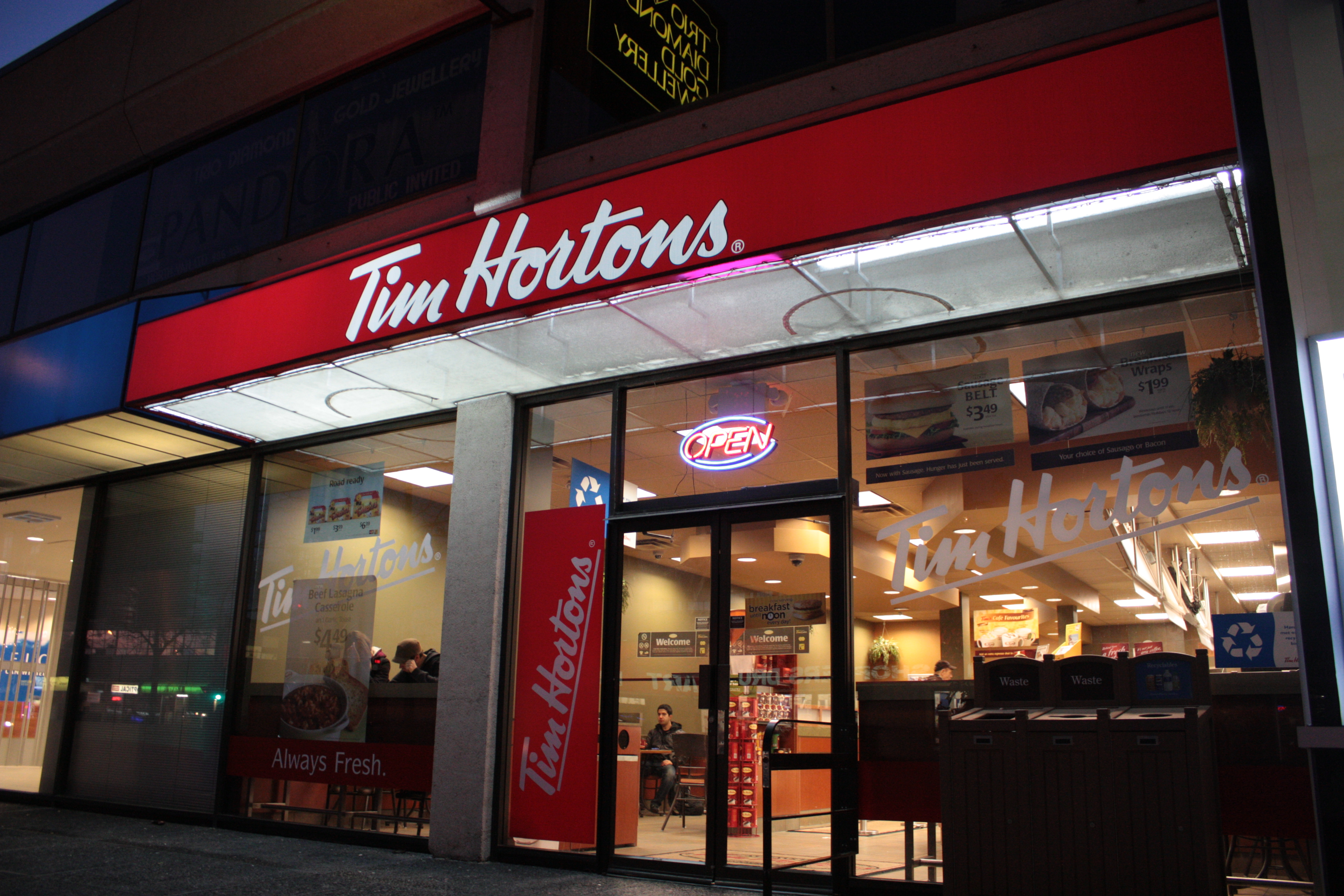 Tim Horton's on Lonsdale